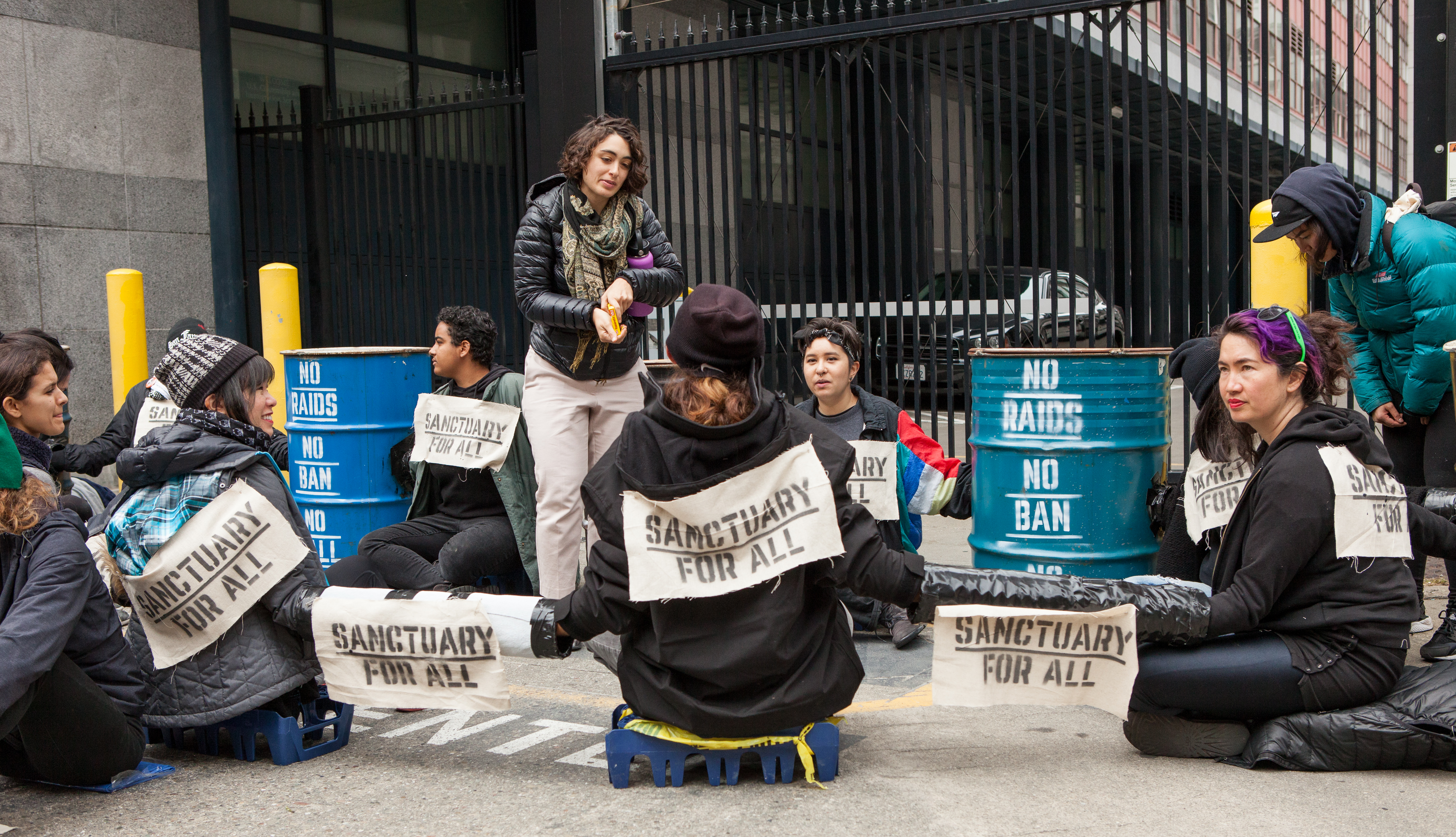 Protesters with locked arms and signs reading "Sanctuary for All" and "No Raids No Ban No Wall" block a driveway at a rally against Immigration and Customs Enforcement (ICE) in San Francisco. Their arms are linked in a "sleeping dragon".